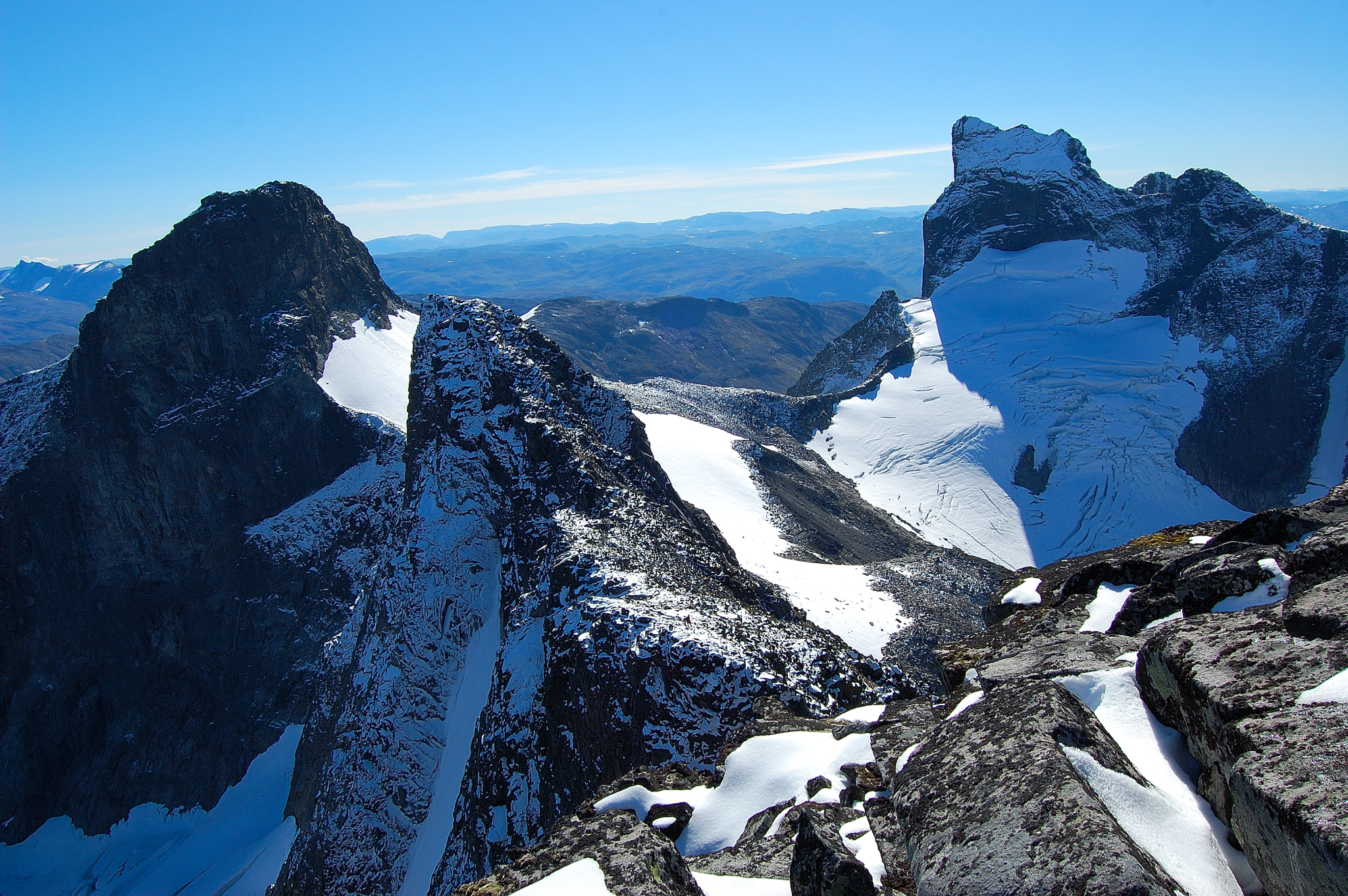 Tur til Soleibotntind. Åhh!